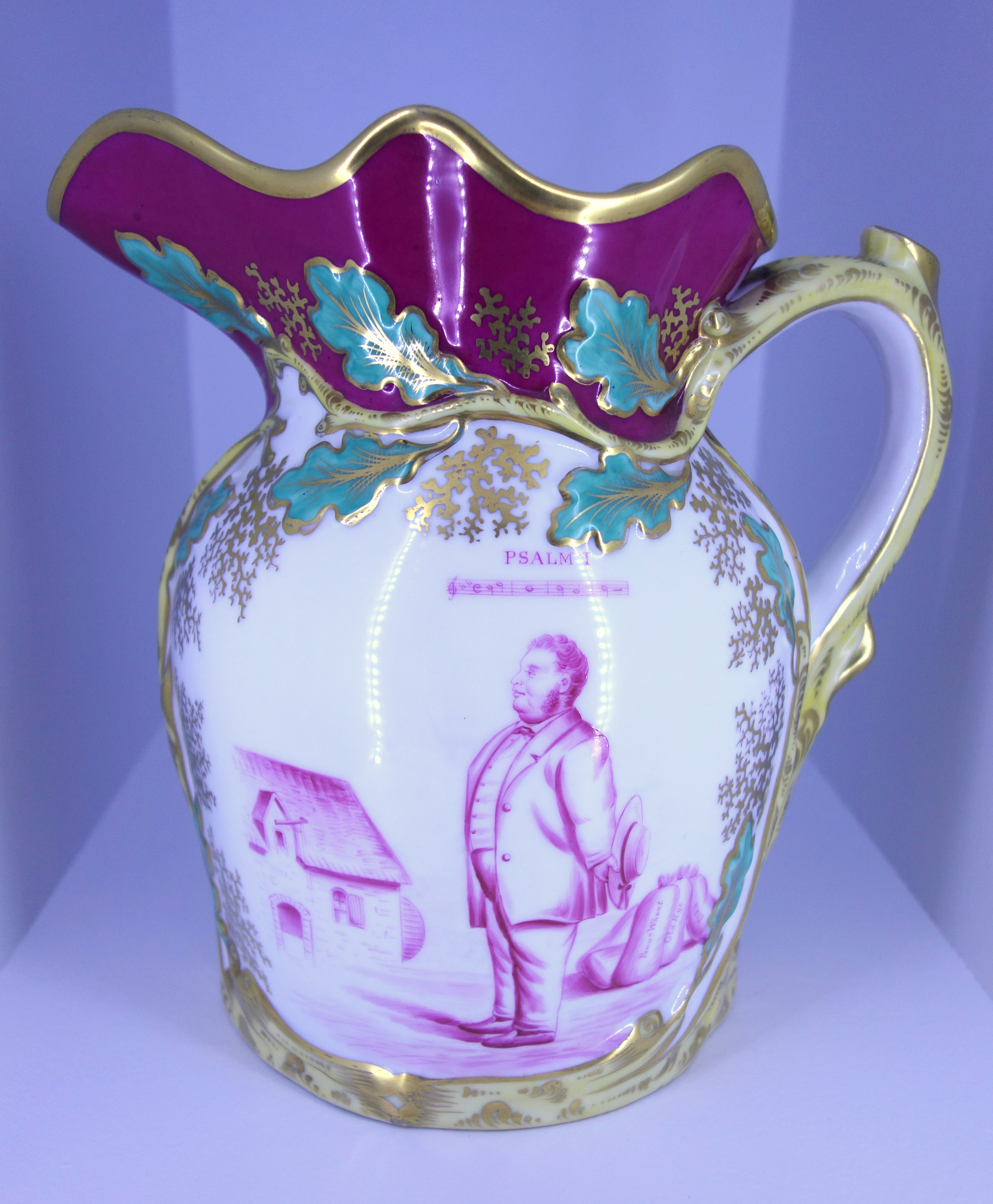 Exhibit in the Brooklyn Museum - Brooklyn, New York, USA. This artwork is in the public domain because the artist died more than 70 years ago.